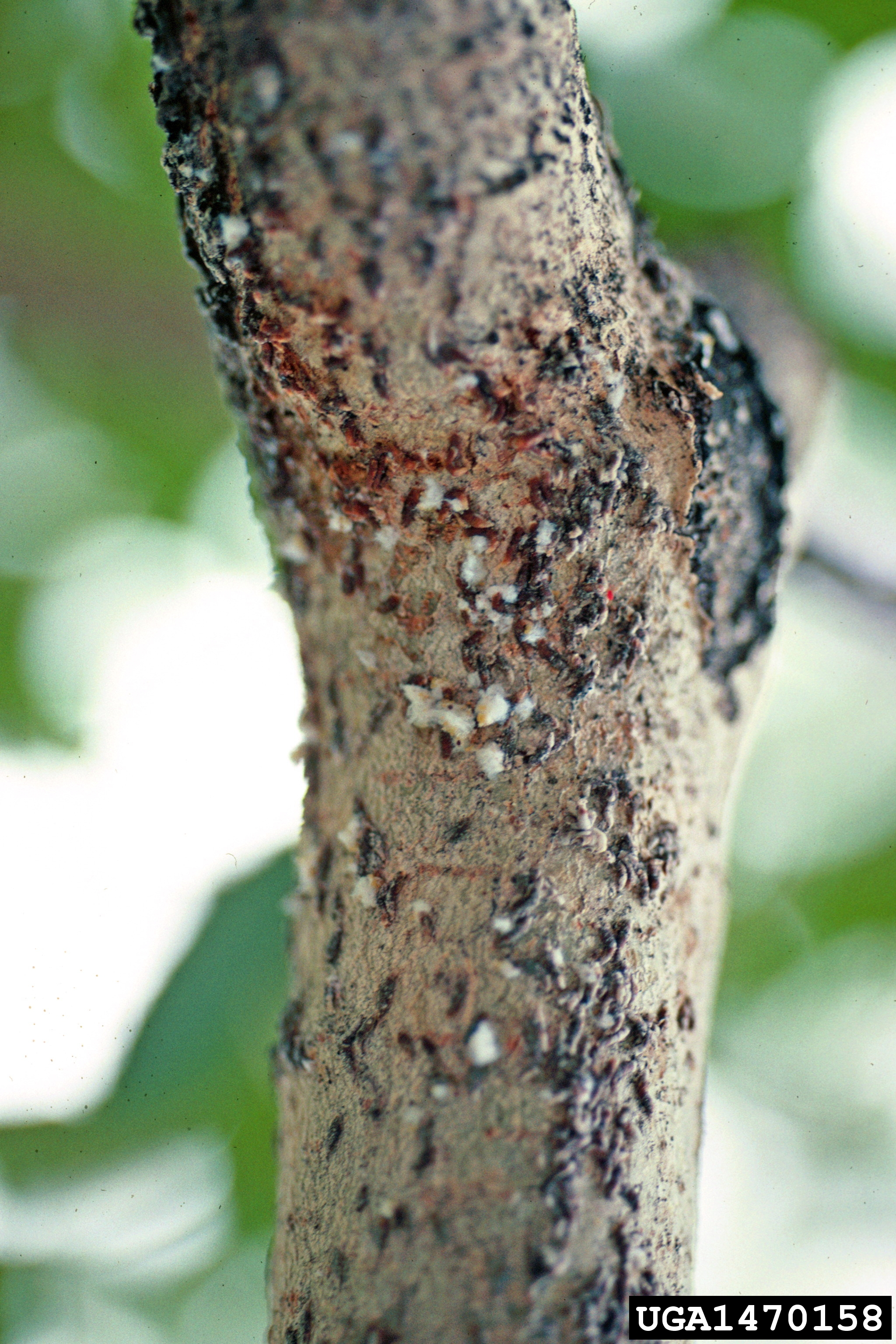 Lepidosaphes ulmi (Oystershell scale) on tree — an introduced pest insect. At Rock Corral Campground in Milford, Utah, the Western United States